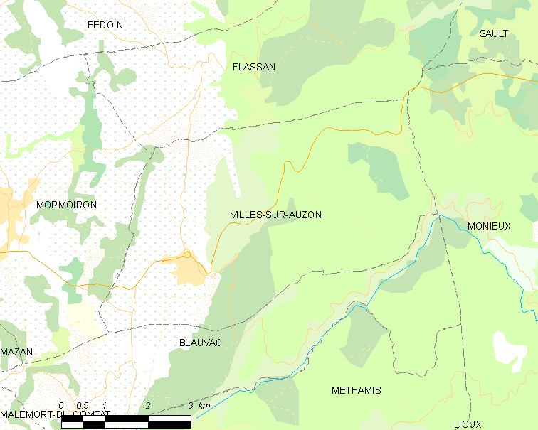 Map of French municipality Villes-sur-Auzon